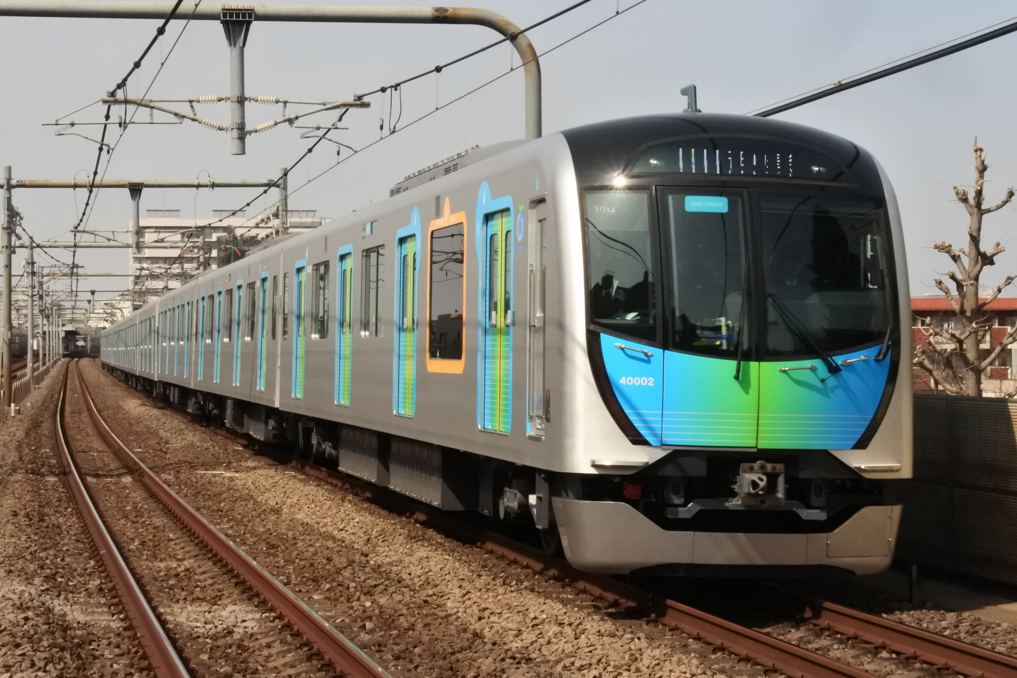 Seibu 40000 series EMU set 40102 on an S-Train service approaching Nakamurabashi Station on the Seibu Ikebukuro Line